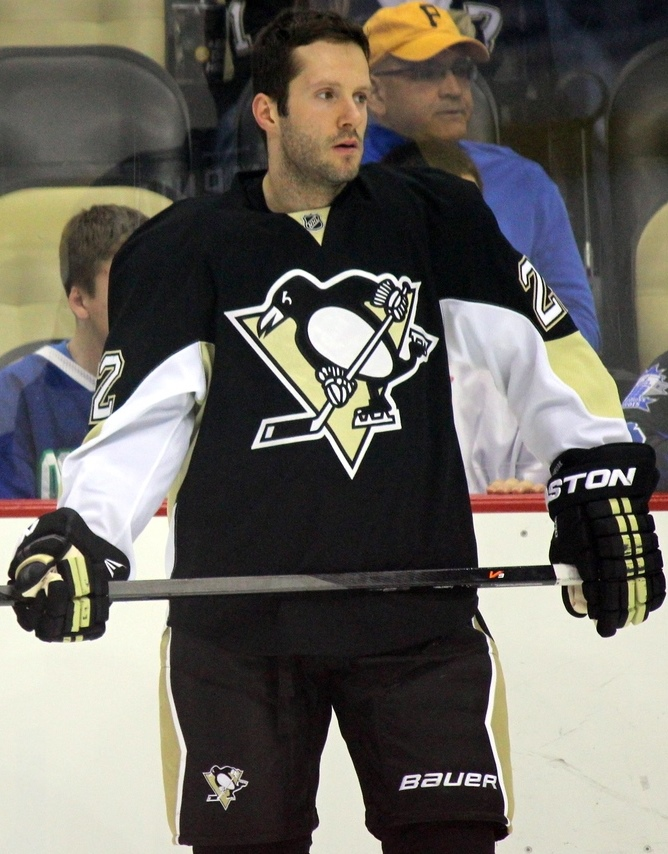 Pittsburgh Penguins forward Lee Stempniak skates against the Tampa Bay Lightning, March 22, 2014, at Consol Energy Center in Pittsburgh, PA.